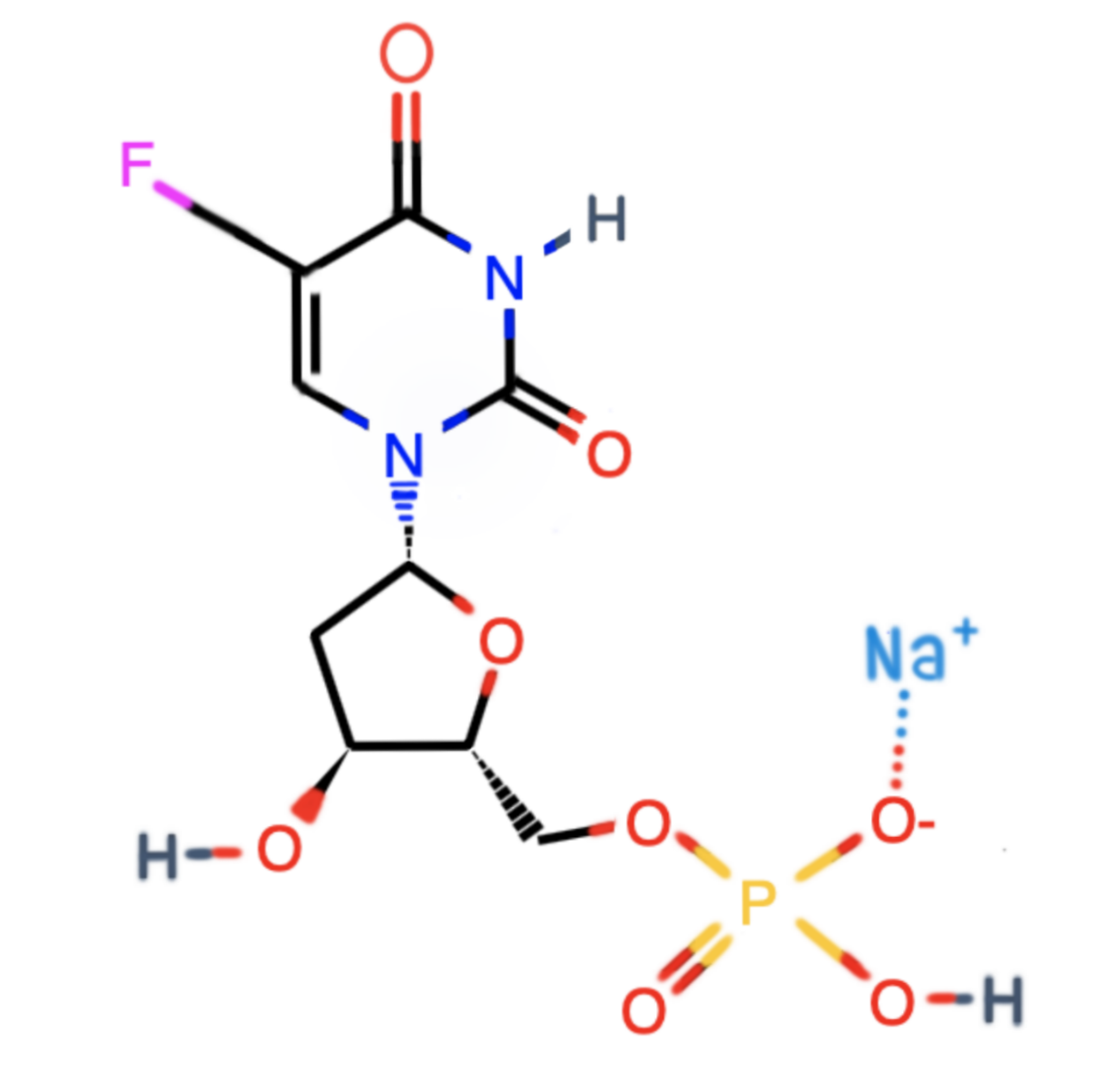 FdUMP chemical structure